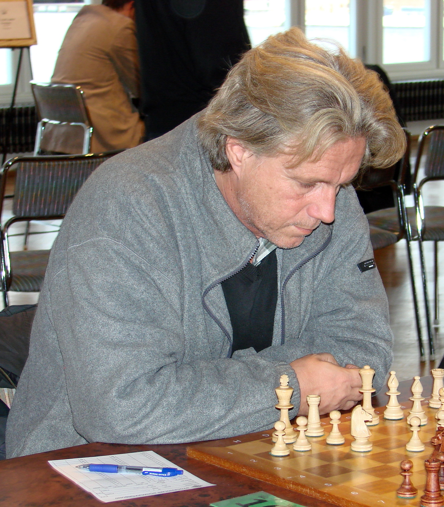 GM Lars Karlsson (Sweden), Rilton Cup Stockholm 2009/10